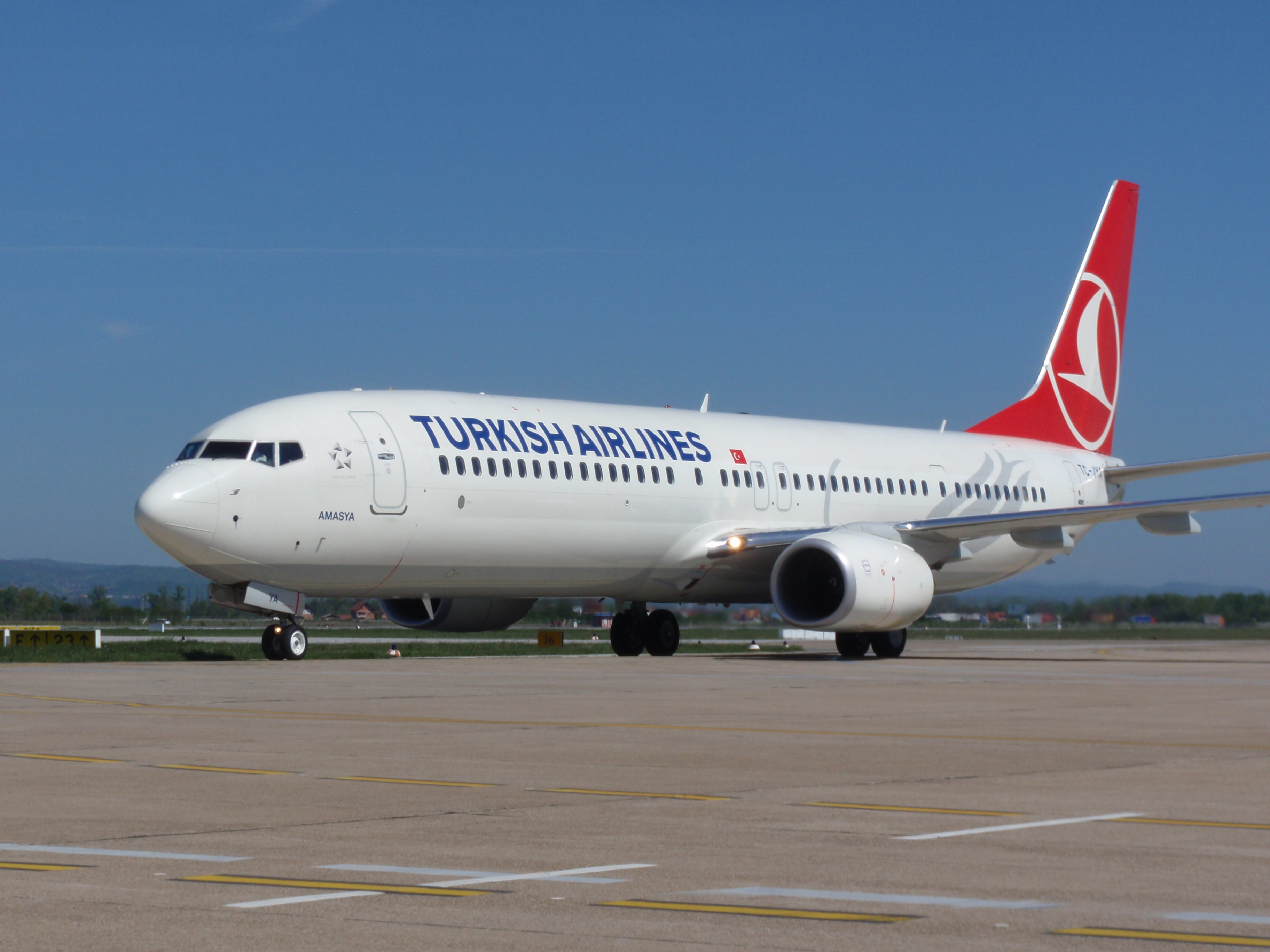 Boeing 737-900 tc-jya